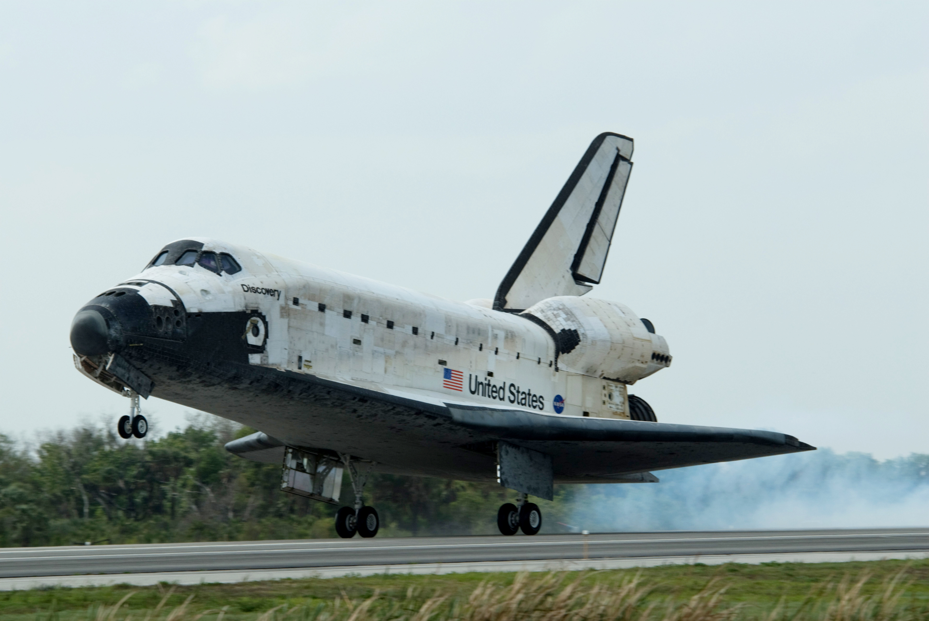 CAPE CANAVERAL, Fla. – A cloud rises from Runway 15 at NASA's Kennedy Space Center in Florida as the wheels of space shuttle Discovery contact the pavement. Landing of Discovery March 28, 2009, completed the 13-day, 5.3-million mile journey on the STS-119 mission to the International Space Station. Main gear touchdown was at 3:13:17 p.m. EDT. Nose gear touchdown was at 3:13:40 p.m. and wheels stop was at 3:14:45 p.m. Discovery delivered the final pair of large power-generating solar array wings and the S6 truss segment. The mission was the 28th flight to the station, the 36th flight of Discovery and the 125th in the Space Shuttle Program, as well as the 70th landing at Kennedy.